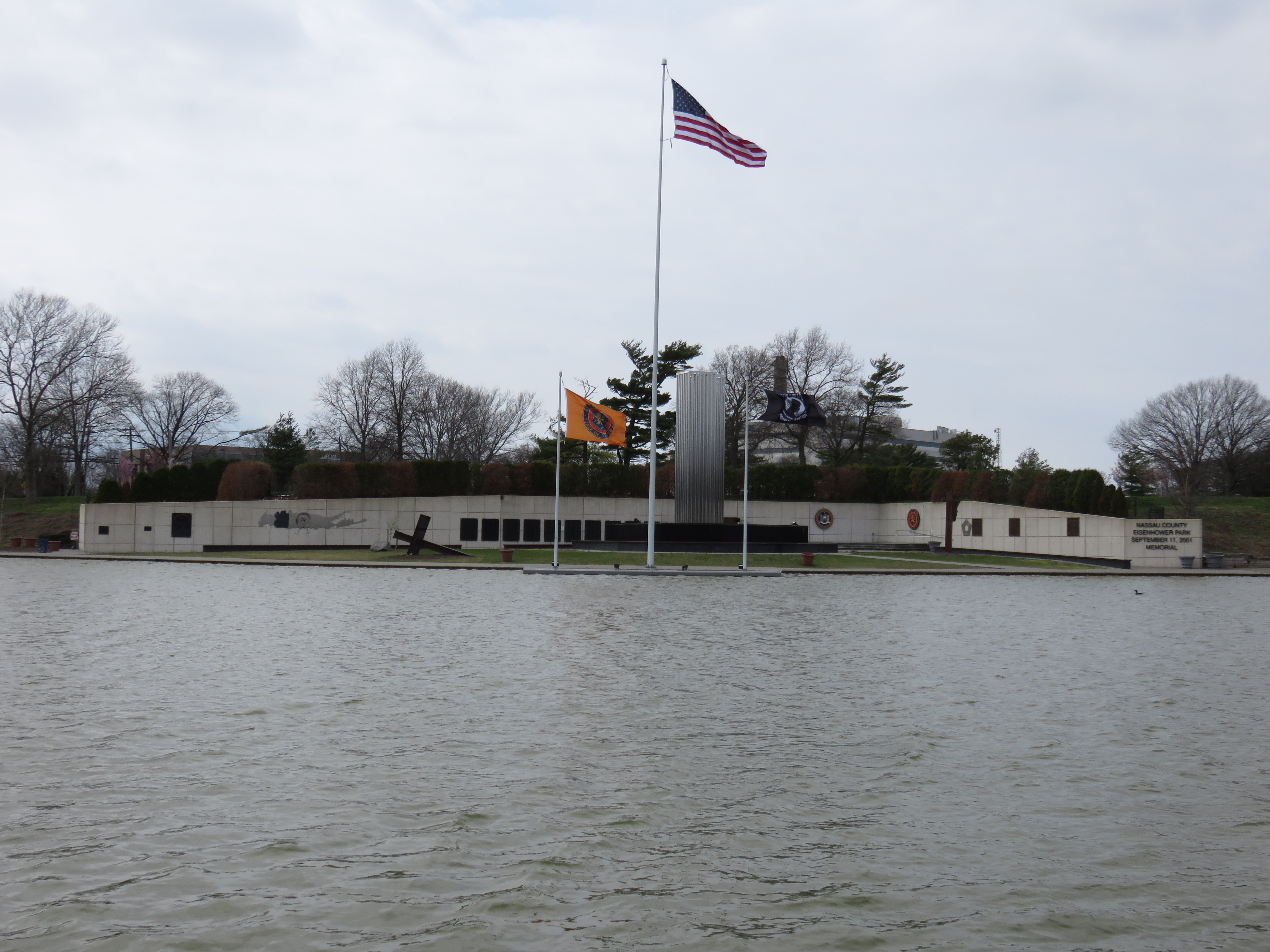 9/11 Memorial in Eisenhower Park in Nassau County, New York in 2017